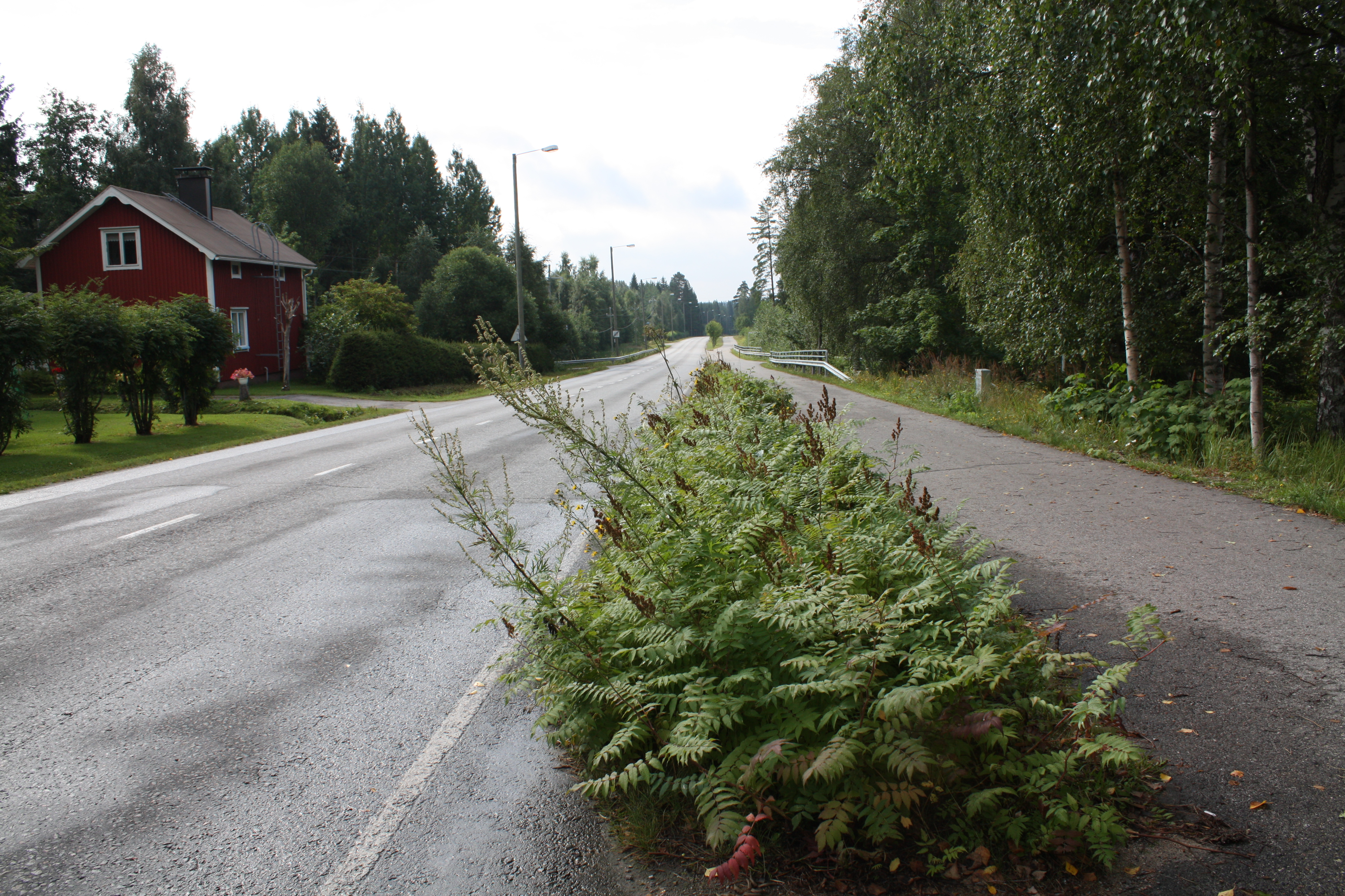 Pylkönmäki in Central Finland – Keskustie or Regional road 636 towards South from Hermannintie crossing